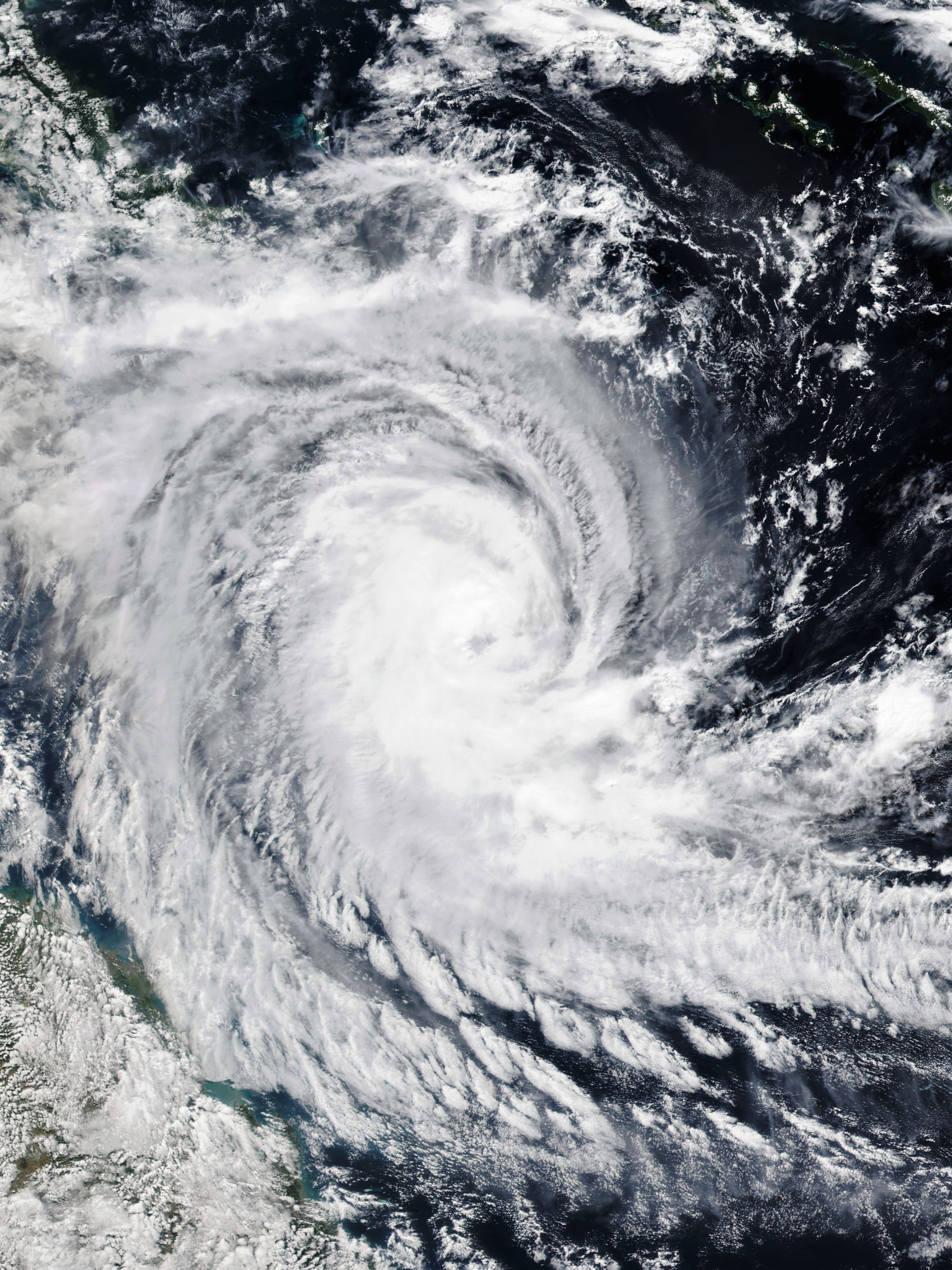 Tropical Cyclone Ann in the northern Coral Sea at 13 May 2019, slightly after peak intensity. The system is at Category 2 on the Australian scale, with ten-minute sustained winds of 95 km/h (60 mph), making it the strongest Australian region tropical cyclone to develop in May since 1997.